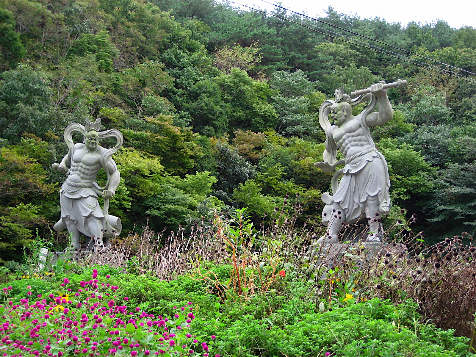 Golgulsa in Mount Hamwol Gyeongju, Gyeongsangbuk-do, South Korea.